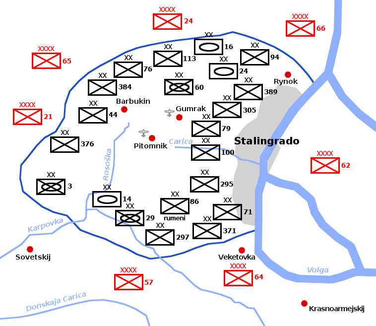 Snapshot of Axis units (black boxes) surrounded by Soviet units (red boxes) following Operation Uranus during the Battle of Stalingrad.